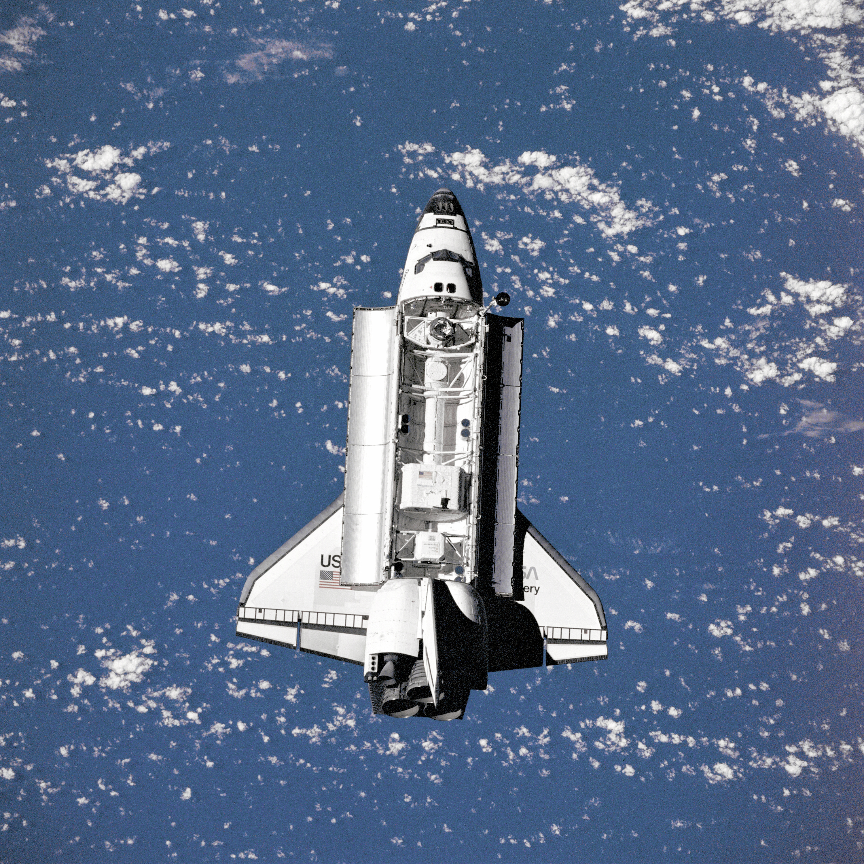 Rendezvous and approach of the Orbiter Discovery to the Mir Russian Space Station. Visible in the payload bay is the Spacehab module and Alpha Magnetic Spectrometer (AMS) payload.